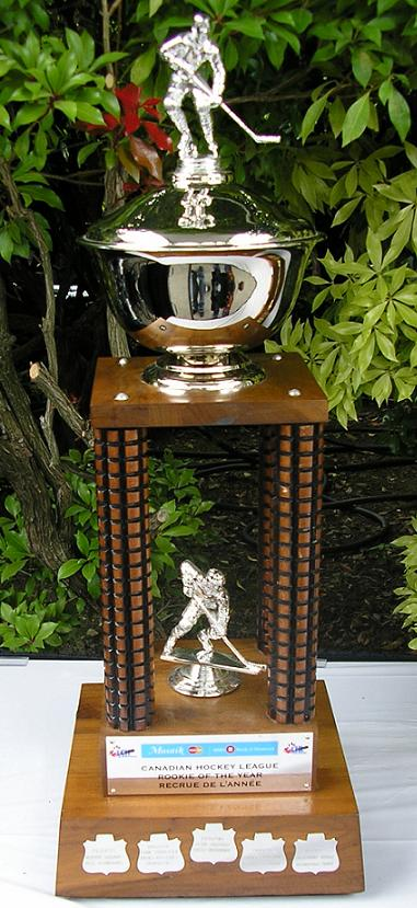 Photo I took of the CHL Rookie of the Year award at the en:2007 Memorial Cup in Vancouver.